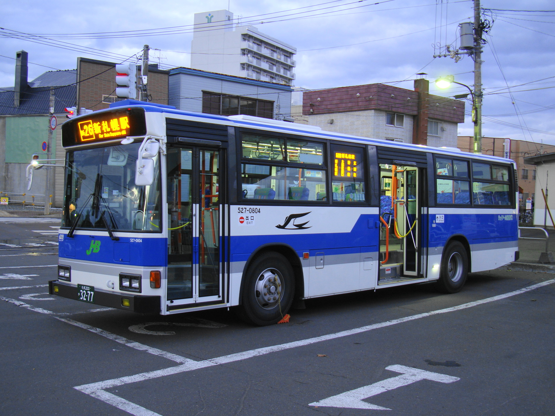 Ebetsu Station to Shin-Sapporo Station